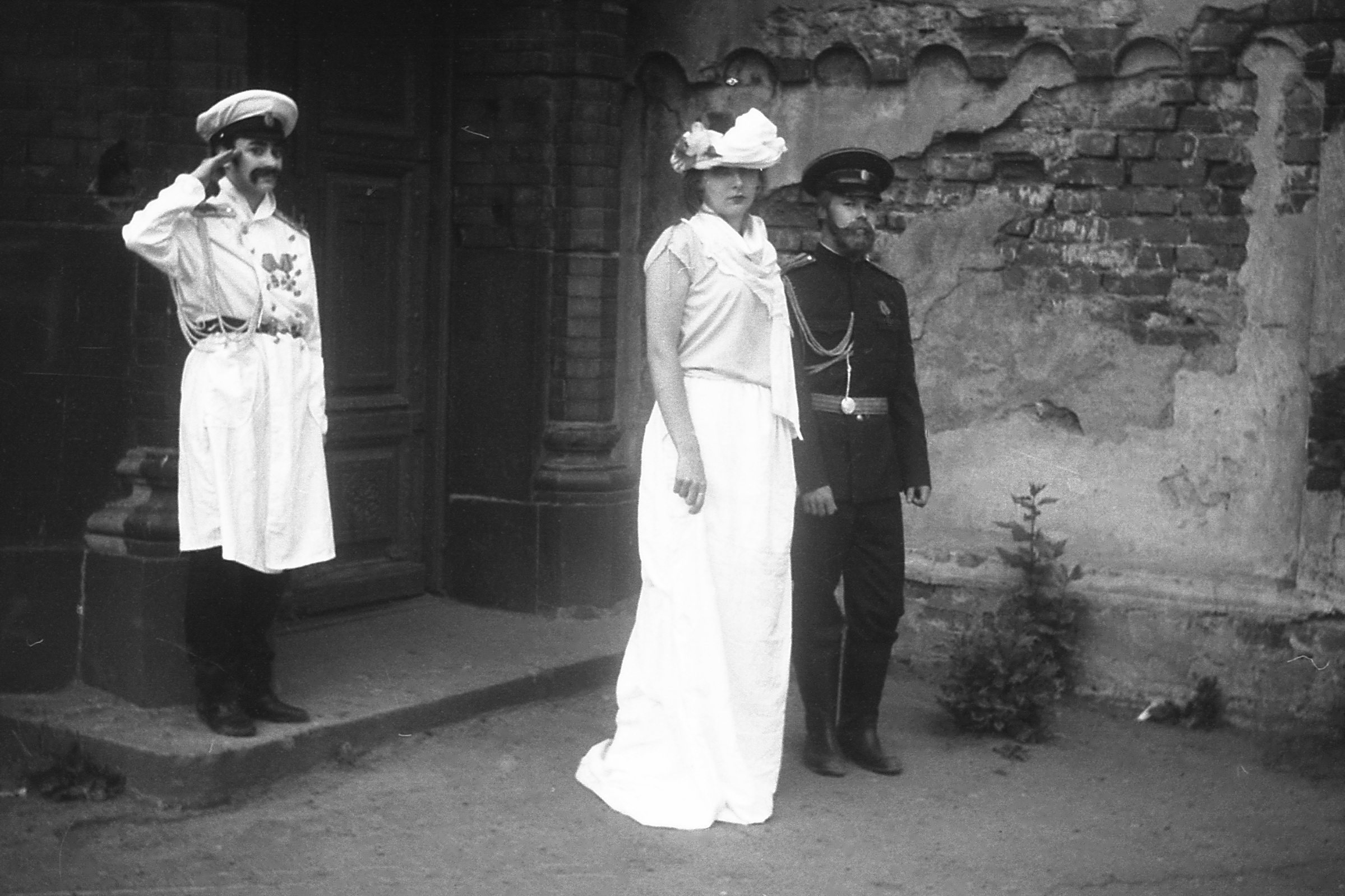 Still from the film "Clowning", directed by Dmitry Frolov